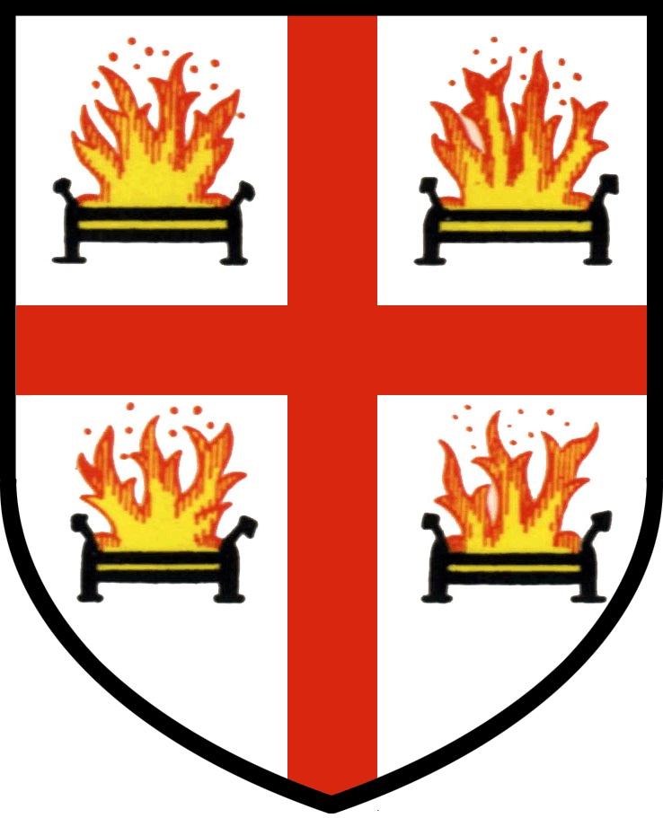 Coat of arms of Queen Elizabeth College